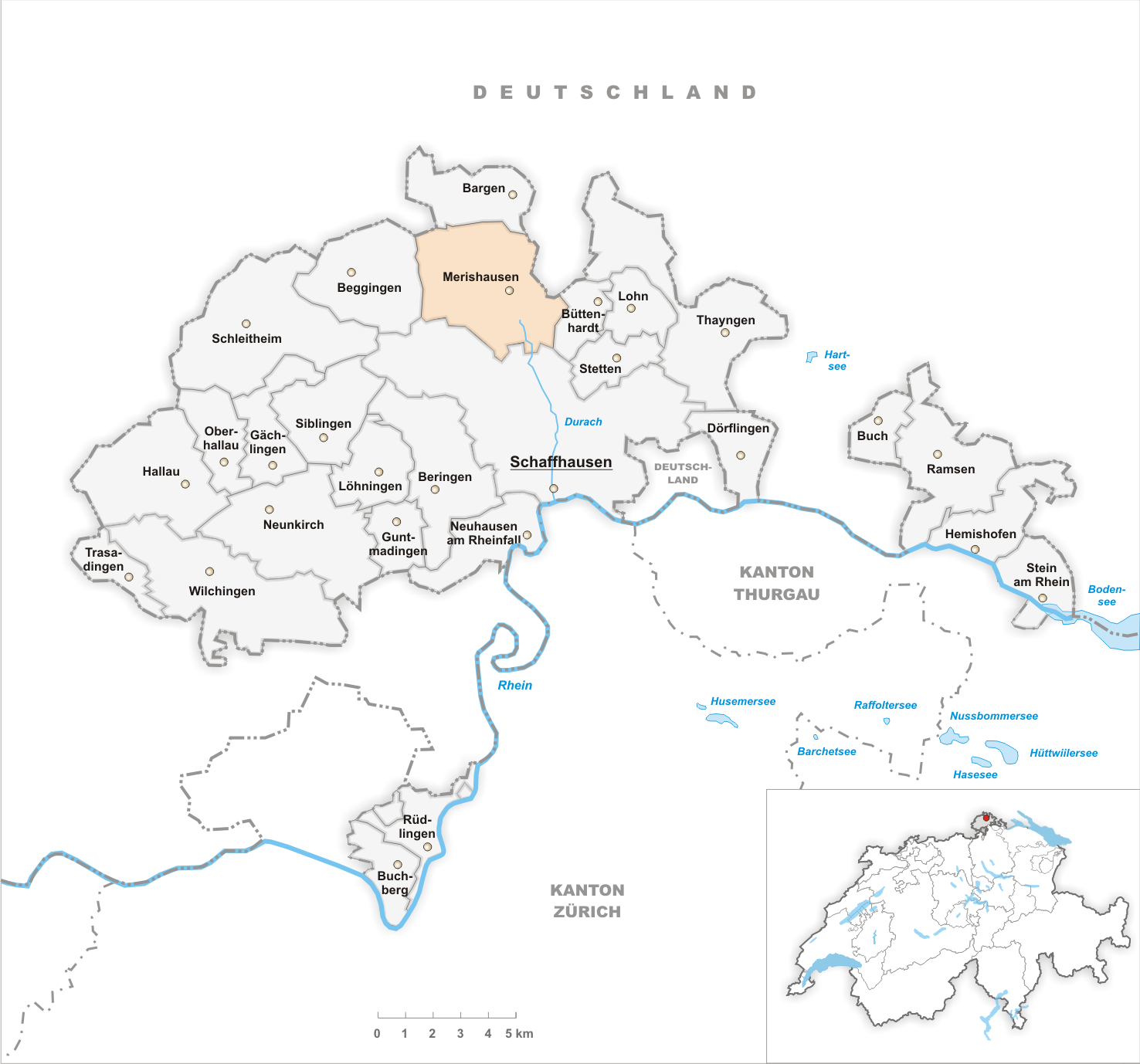 Municipality Merishausen